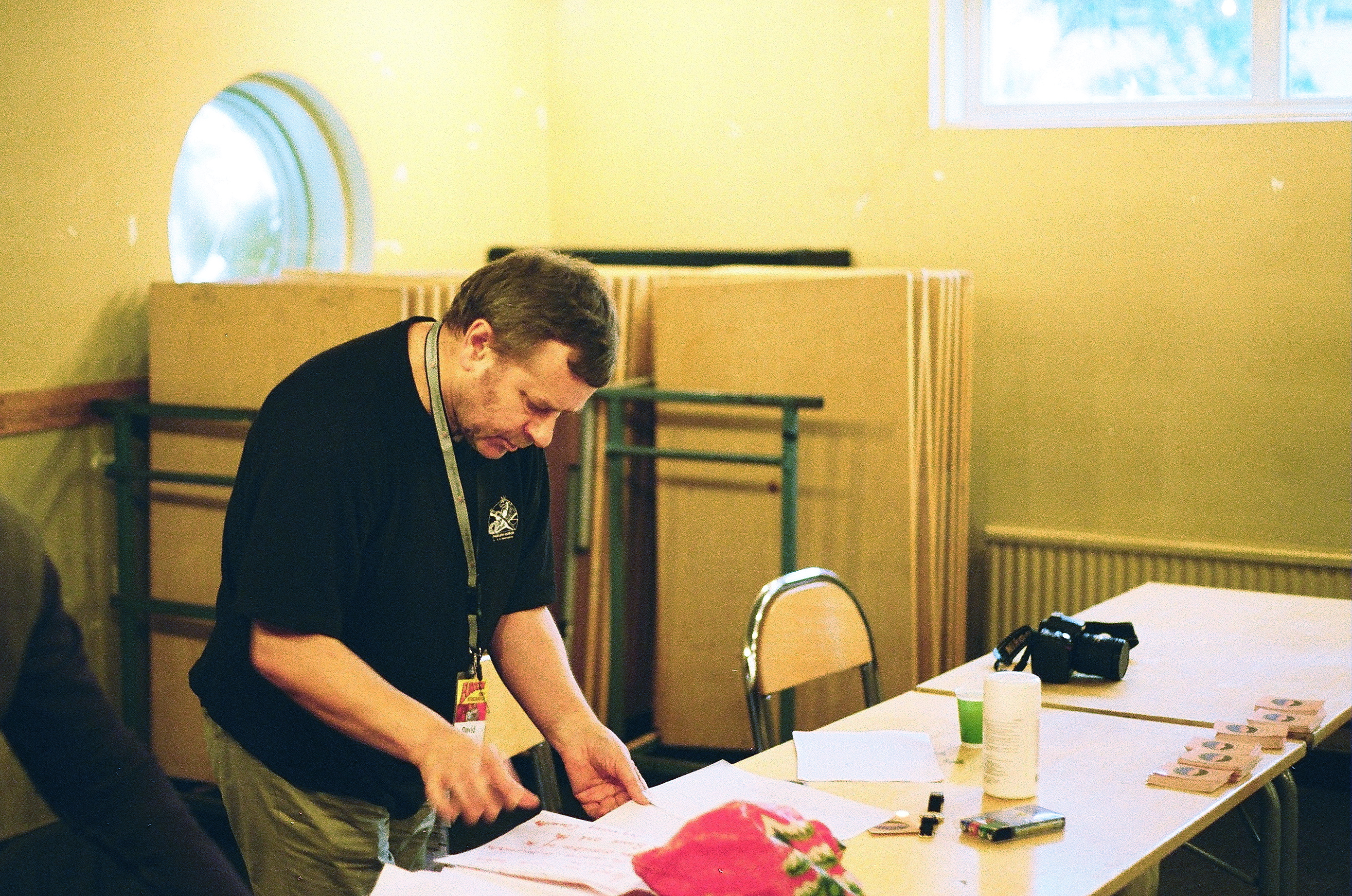 David Lally, chairman of European Science Fiction Society, during the General meeting in Stockholm 2011.